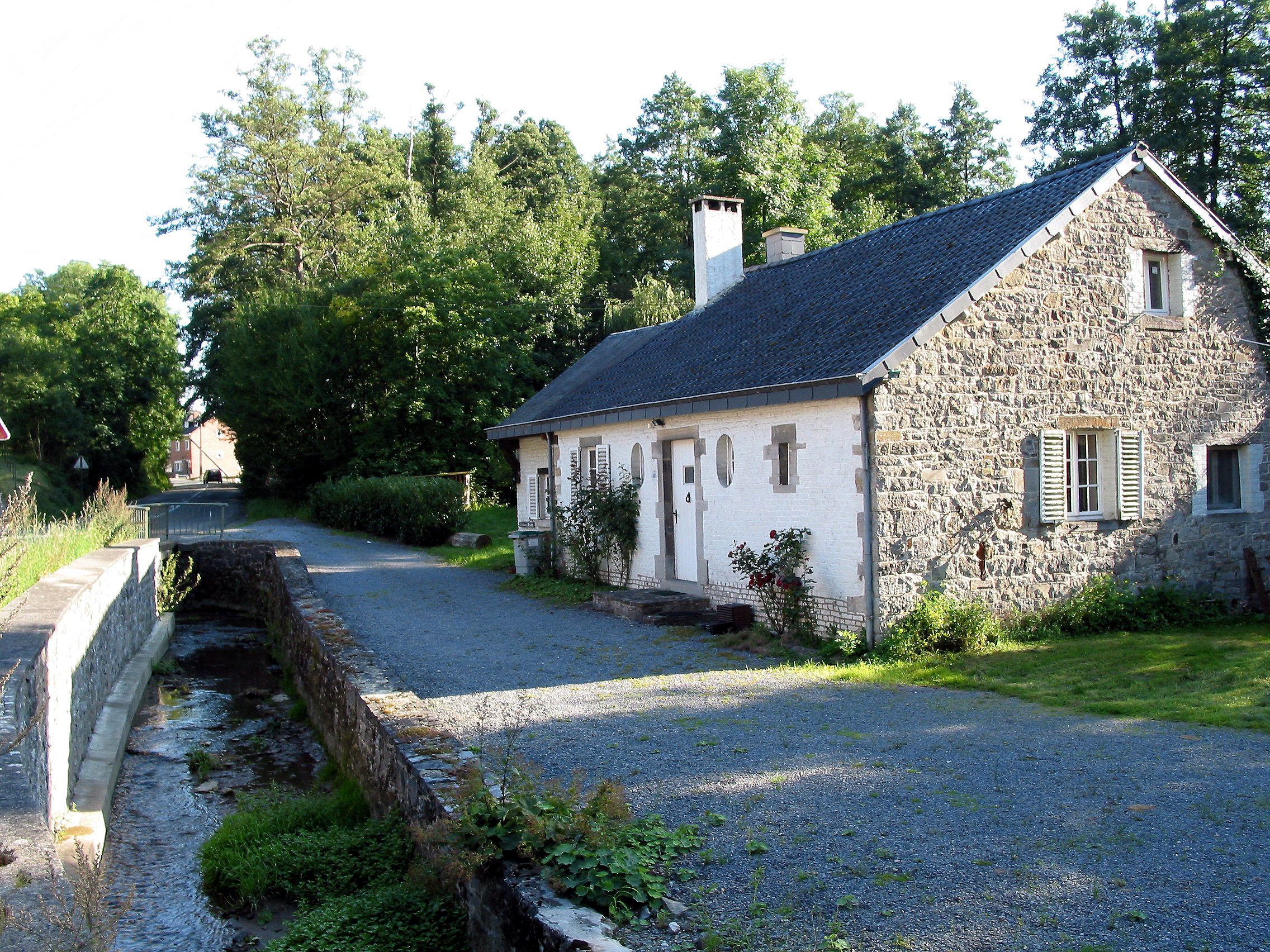 Forrières (Belgium), rue de Jemelle - the previous watermill (XIXth century).